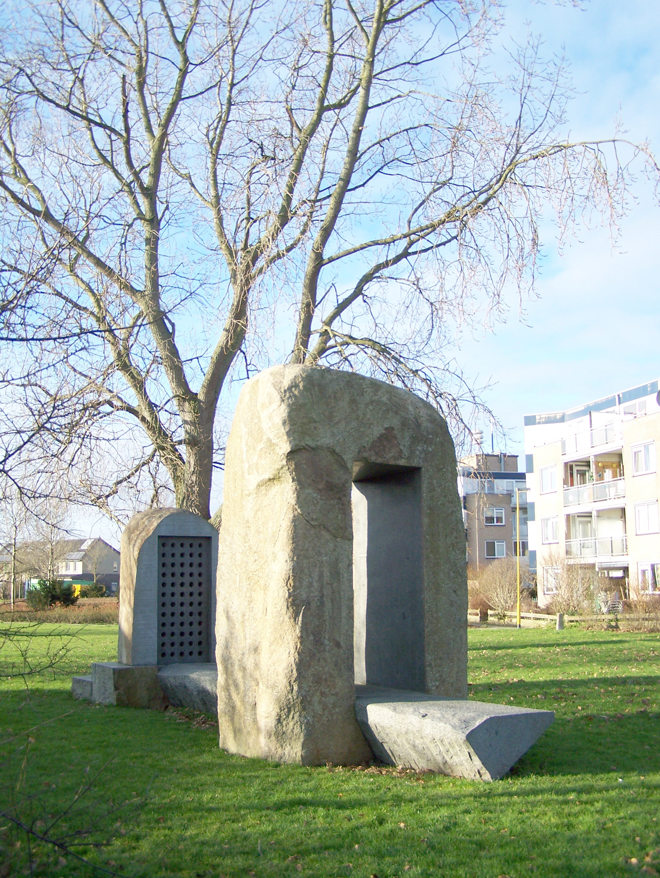 Sculpture "Granieten Poort" by Gerard Höweler. Placed at the buurtpark in Butterhuizen (Heerhugowaard) in 1999.